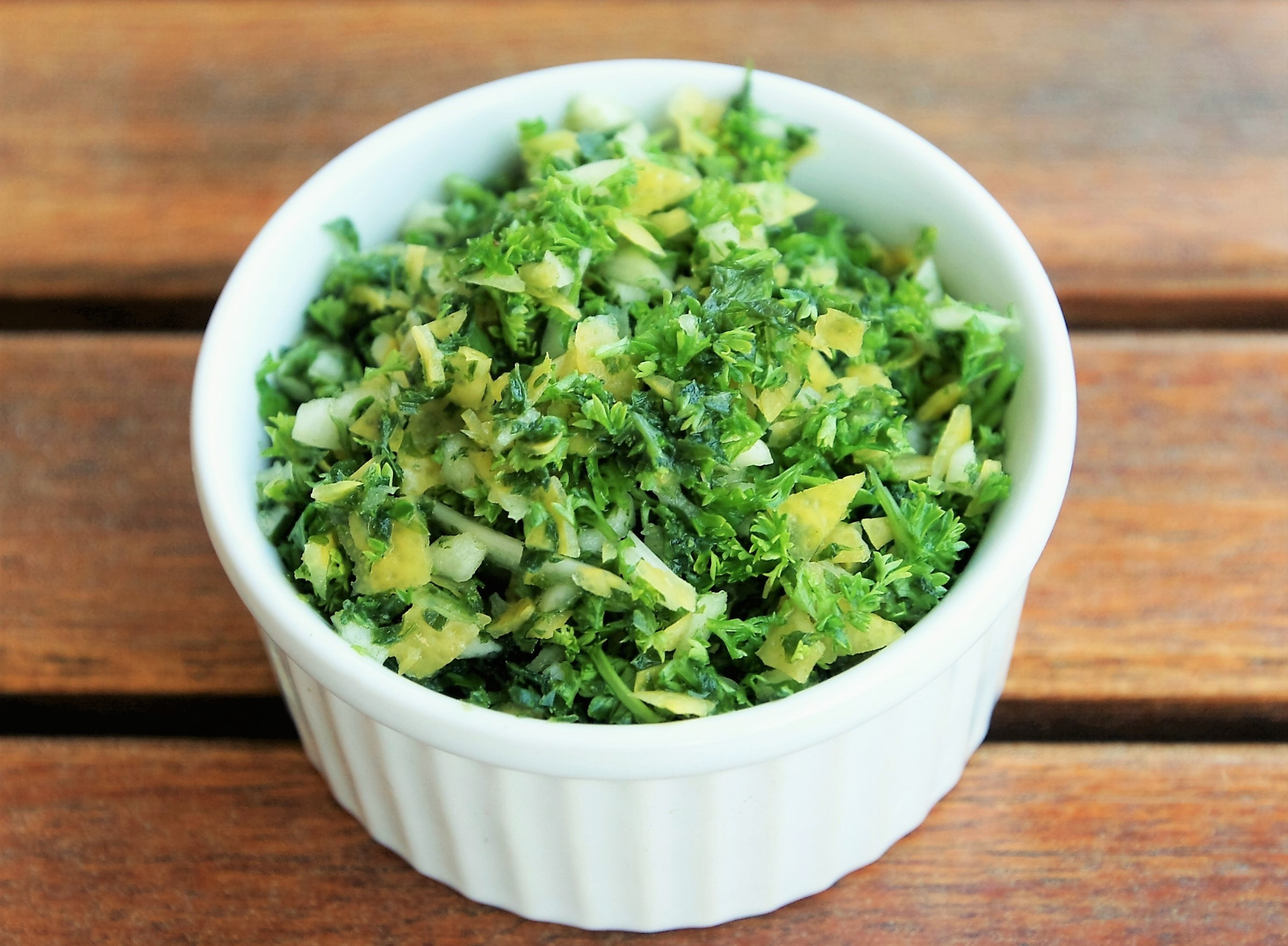 Gremolata, a mix of lemon, garlic and parsley from Lombardy, Italy.